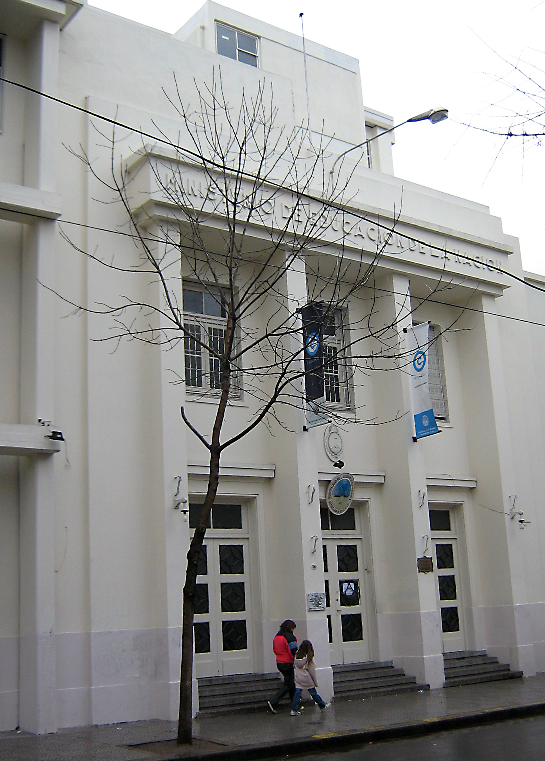 Frente del edificio del Colegio Nacional número 9 Justo José de Urquiza del barrio de Flores, Ciudad Autónoma de Buenos Aires, Argentina. Calle Condarco 290 - Septiembre 2008